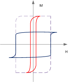 A schematic hysteresis loop of exchange spring magnet